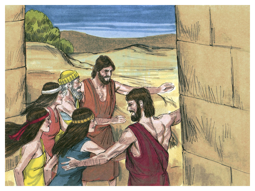 Biblical illustration of Book of Genesis Chapter 19